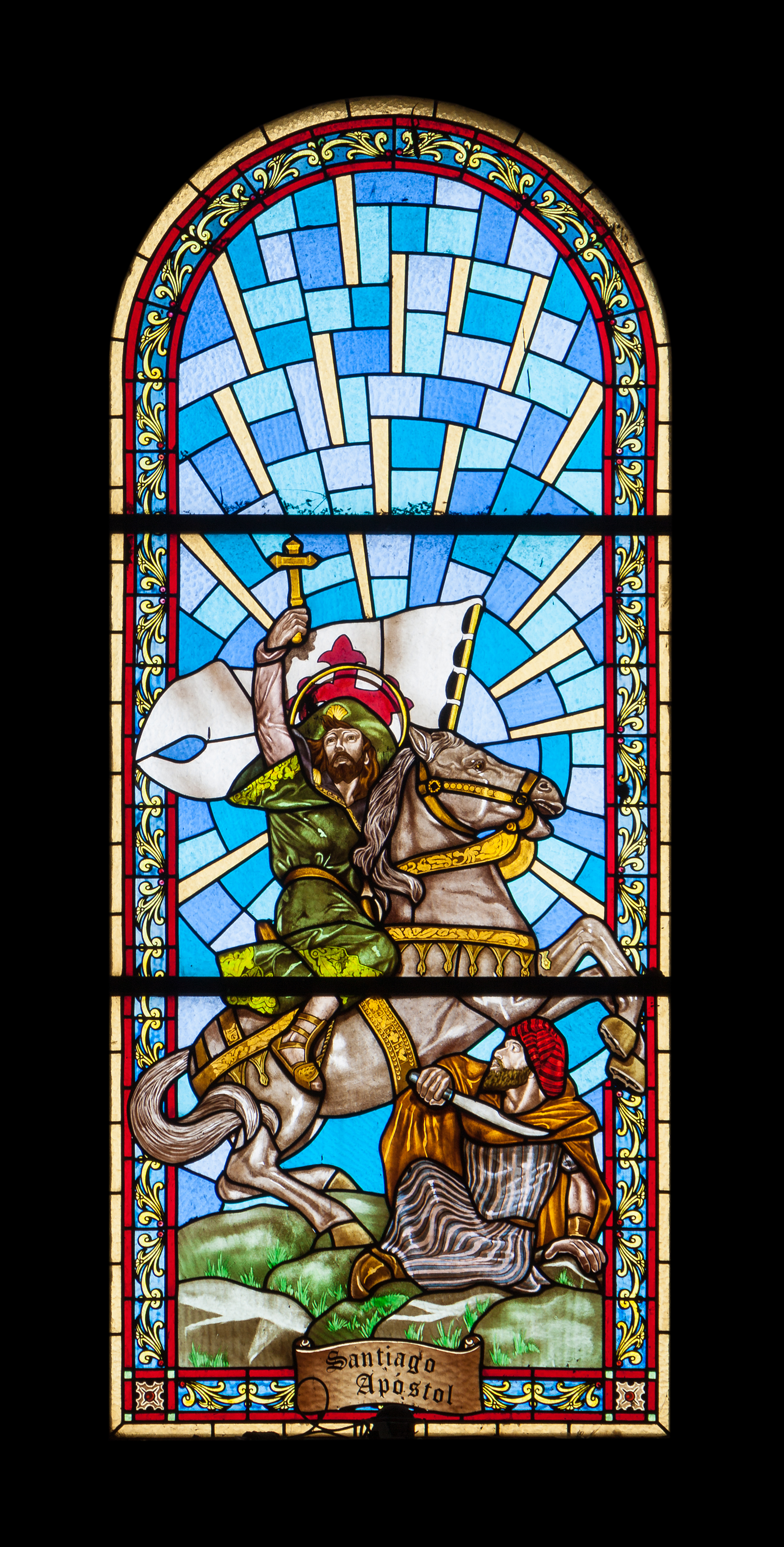 Stained glass window Santiago Apóstol (James the Greater) in the western facade of the Iglesia de San Bartolomé de Tirajana, San Bartolomé de Tirajana, Gran Canaria, Canary Islands, Spain.